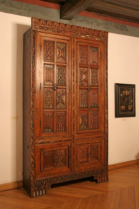 Toruń, House of Nicolaus Copernicus, gothic cabinet from turn of 15th and 16th century